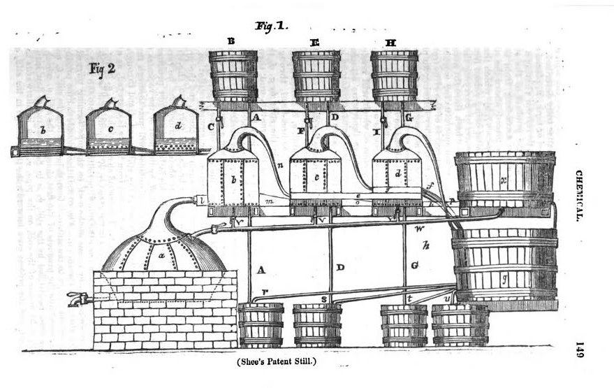 A sketch of plans for an early continuous distillation apparatus patented by Joseph Shee, an Irish distiller in 1834.